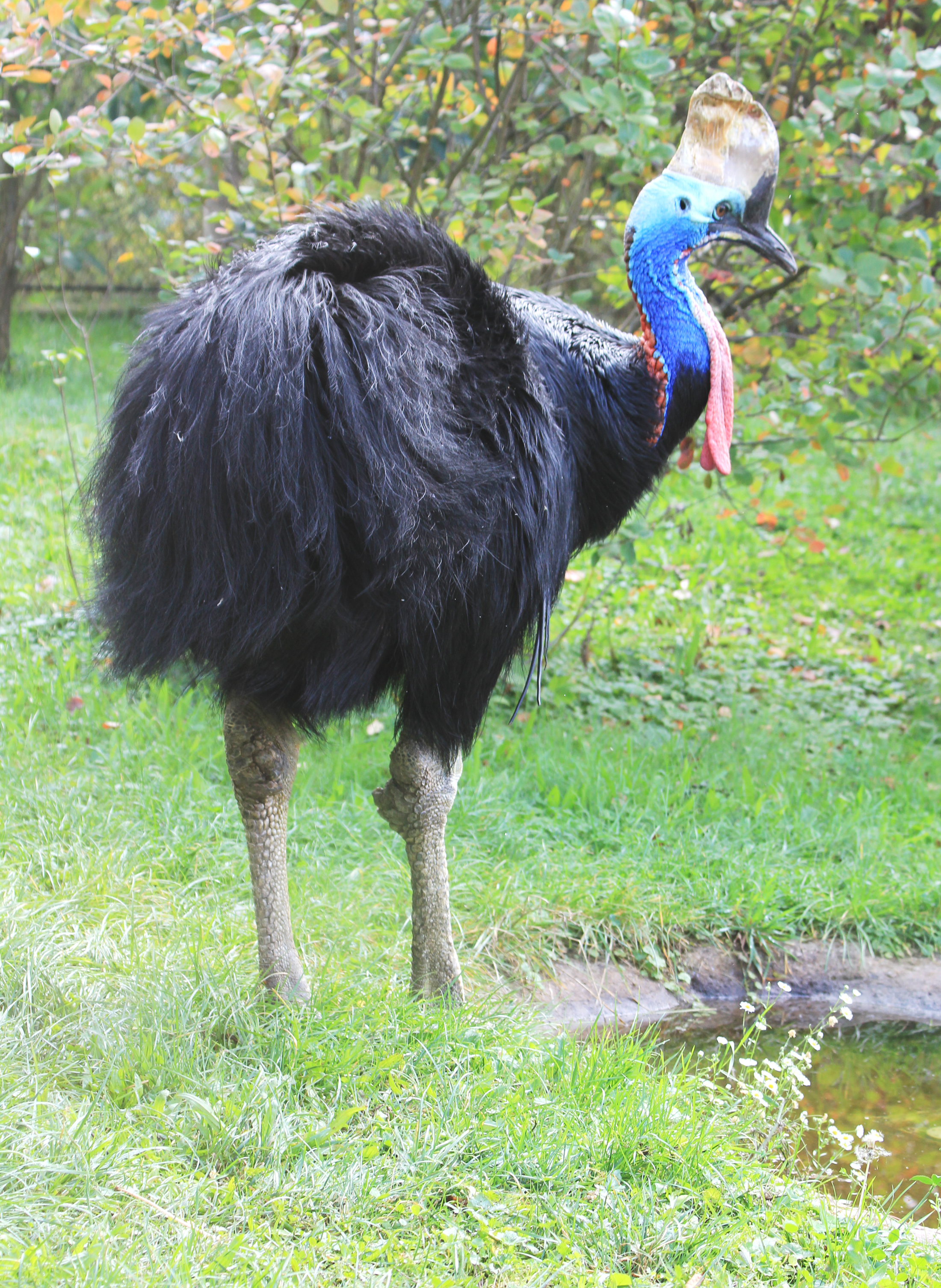 Southern Cassowary (Casuarius casuarius) in Prague Zoo, Czech Republic